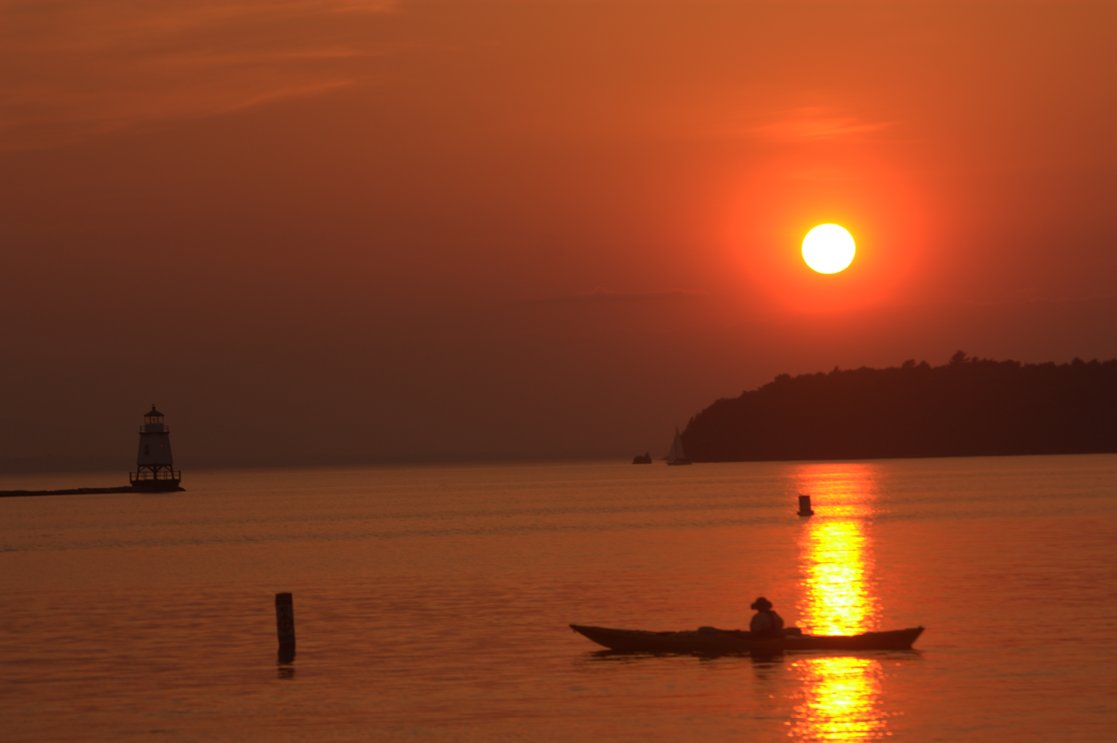 The lake Champlain at the west of vermont separates Vermont and New York state. The view of sunset from vermont is a real feast for nature lovers.